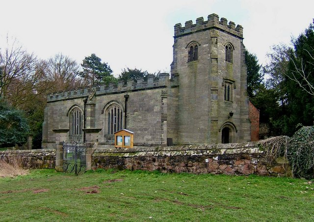 St. Saviour's Church This small church was built in 1662 at the time of the restoration of the monarchy. It is, apparently, one of the few Restoration period churches outside London and has been little changed since then. It still has its original box pews and a triple-decker pulpit. Inside are many memorials and tombstones of the Burdett family, who lived in the nearby Foremark Hall, and were major landowners in the area. The Burdetts held the Burdett baronetcy of Bramcote in Warwickshire, created in 1619. They gained their Foremark estate by marriage. It was the second Burdett of that line who funded the building of this church. The baronetcy has been dormant since 1951, and Foremark Hall is now a preparatory school for Repton School.